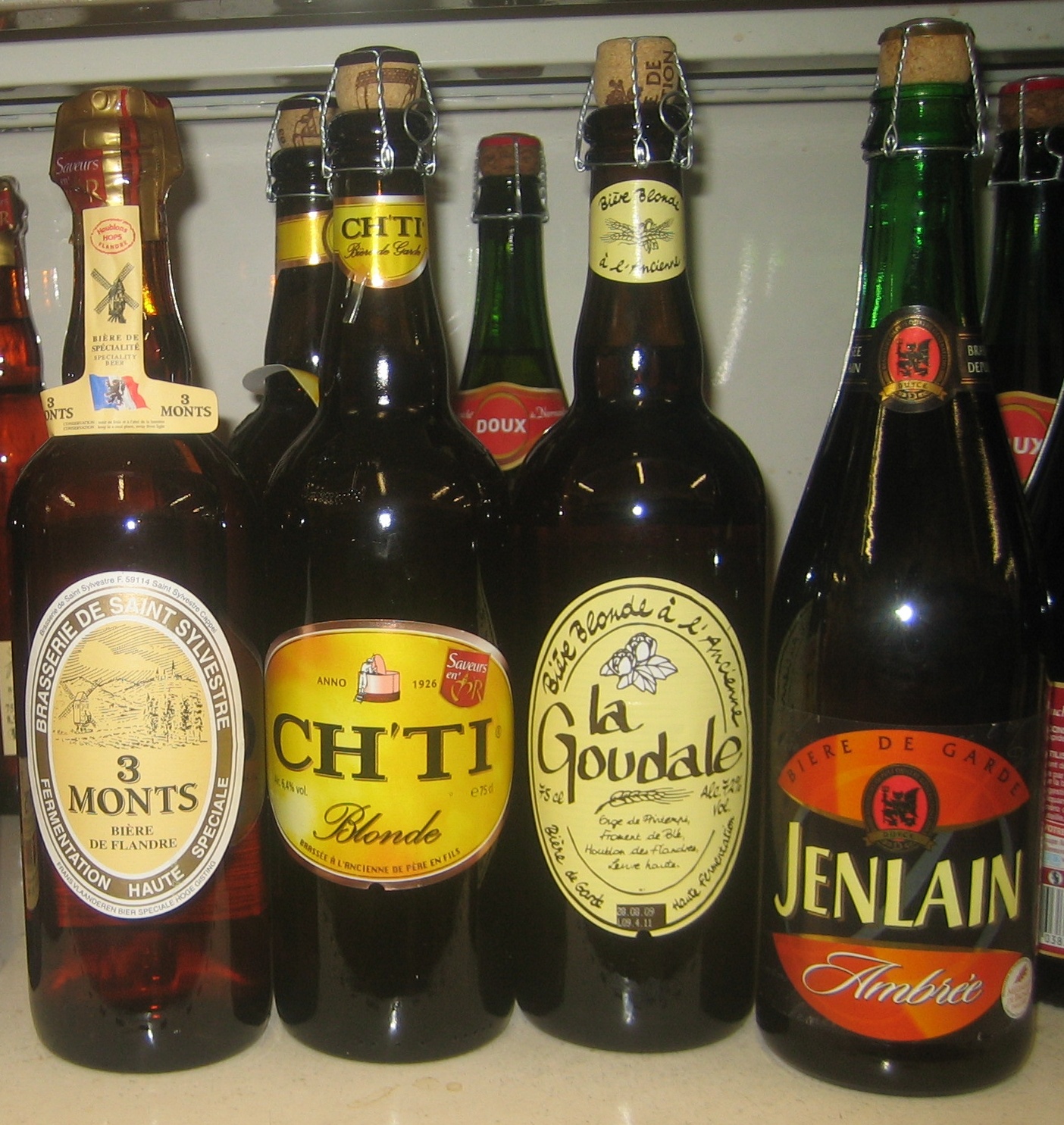 Set of Northern France beers : 3 Monts, Ch'ti, Goudale and Jenlain.